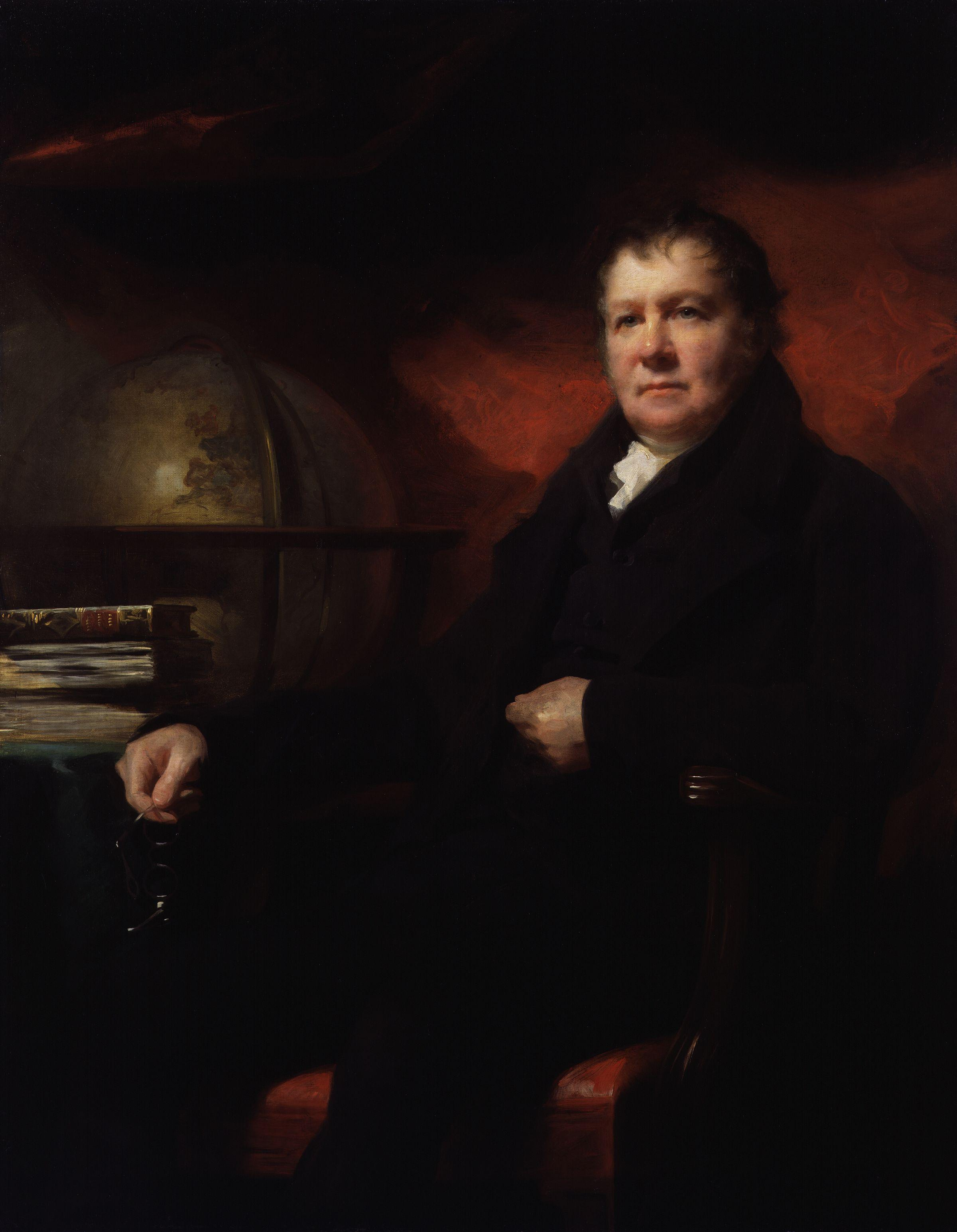 John Playfair, by Sir Henry Raeburn (died 1823). All images in this batch have been confirmed as author died before 1939 according to the official death date listed by the NPG.